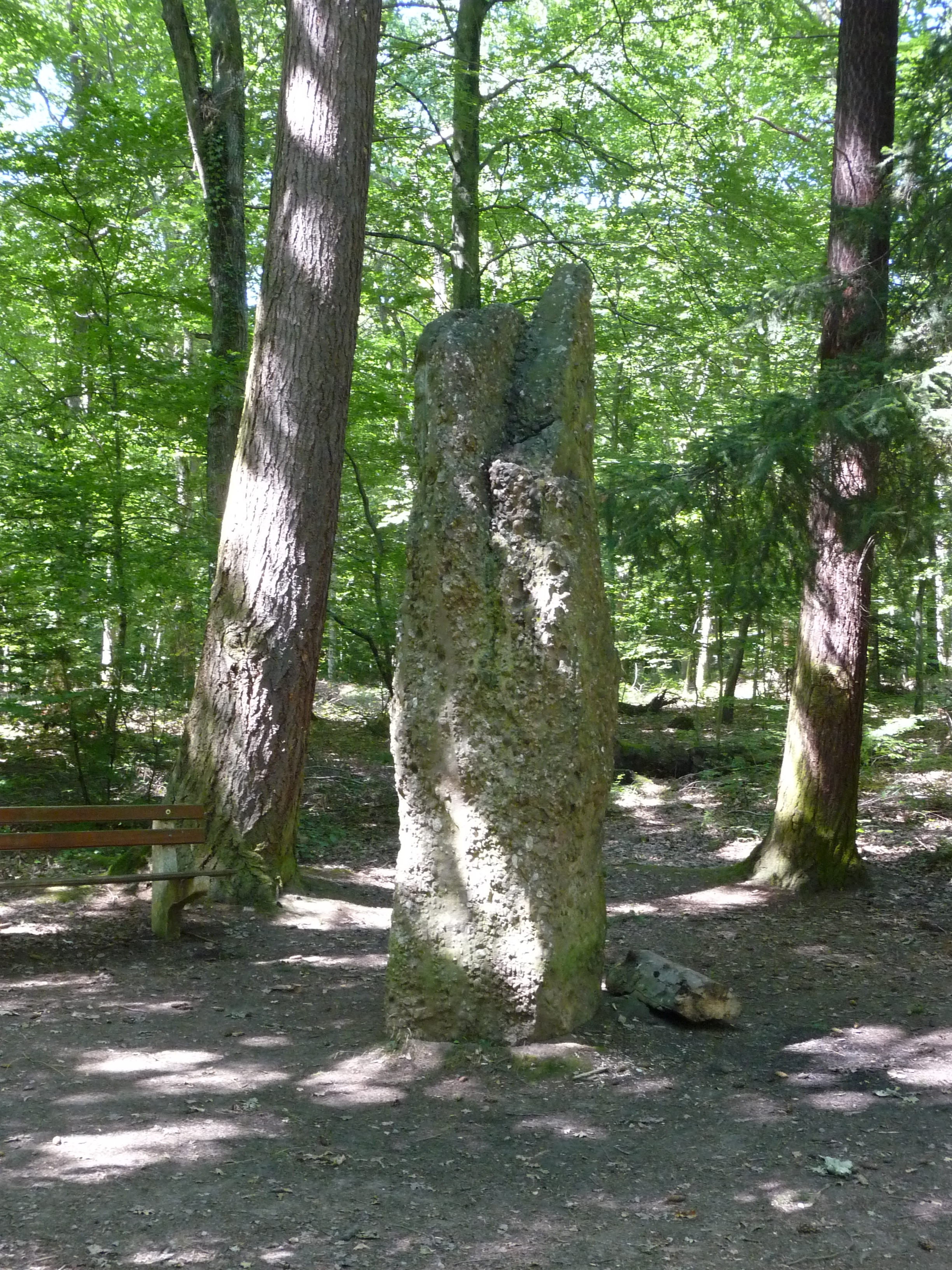 Menhir of Langenstein, Soulzmatt, France.